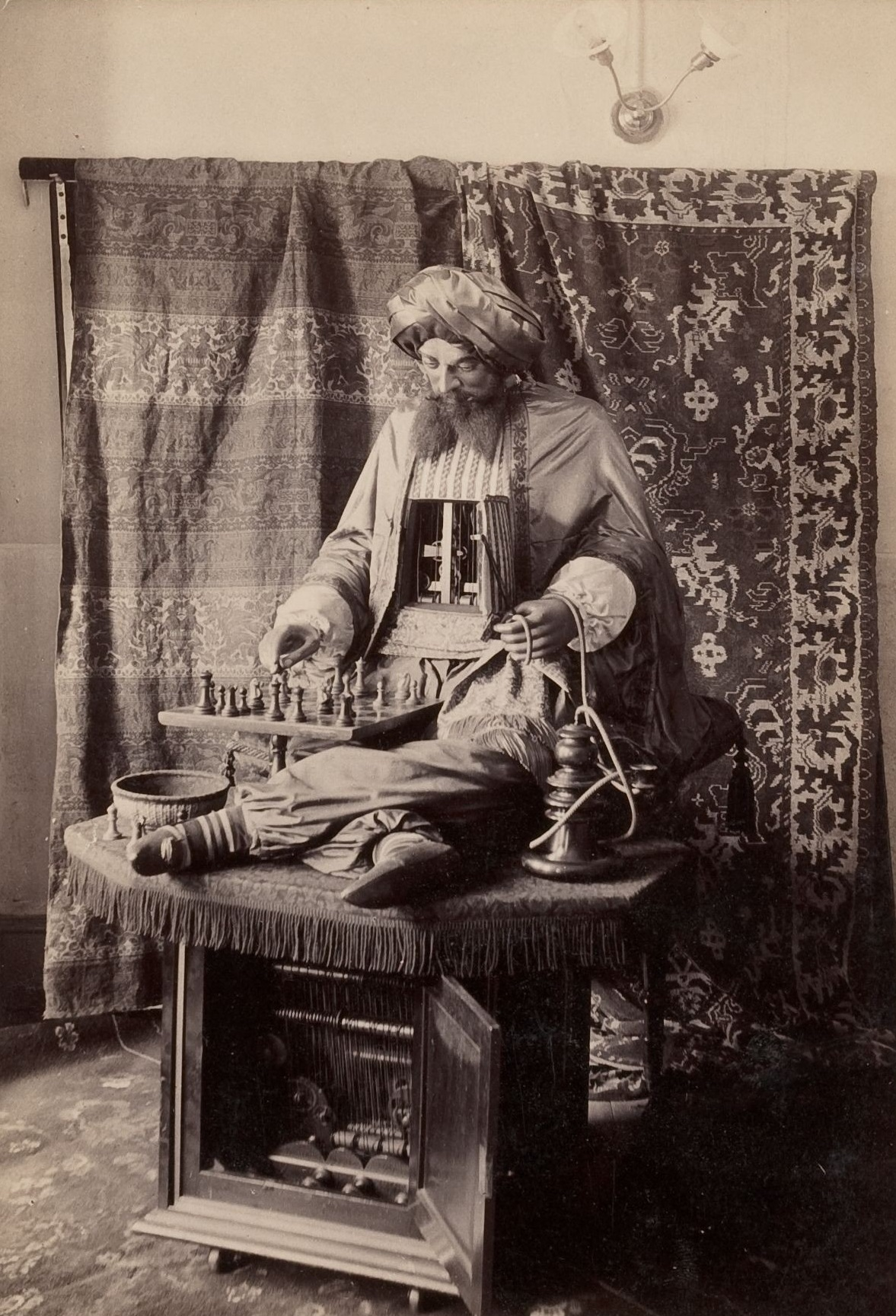 Cabinet card image of chess automaton "Ajeeb the Wonderful". Cropped version. 1886. TCS 1.183, Harvard Theatre Collection, Harvard University